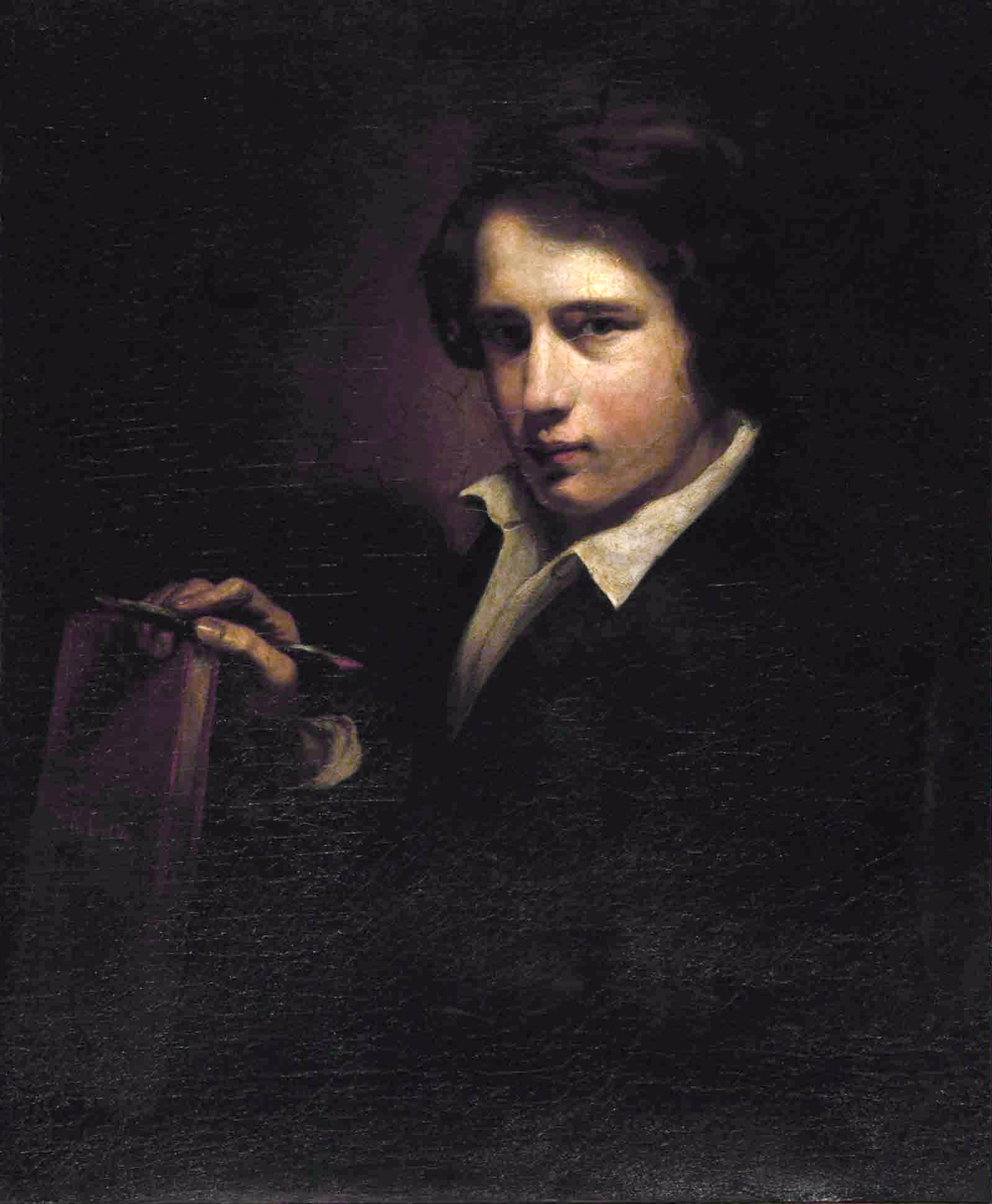 Robert Gavin (1827-1883) oil on canvas 76.2 x 63.5 cm signed b.c.: R. Gavin